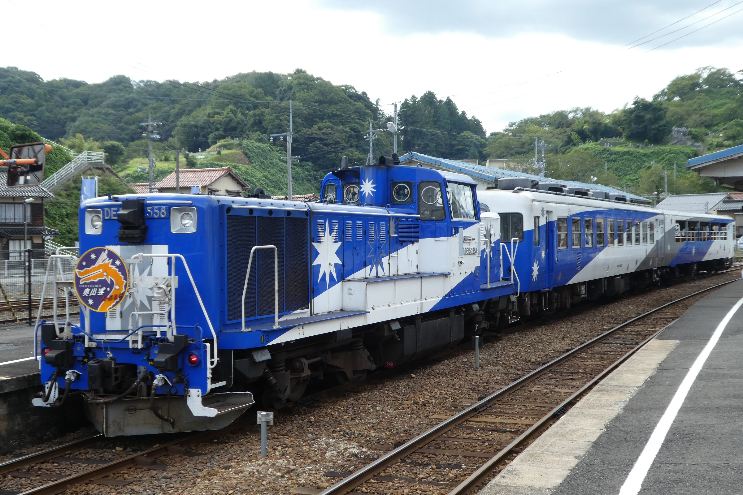 JR Shikoku Class DE15 diesel locomotive DE15 2558 at Kisuki Station